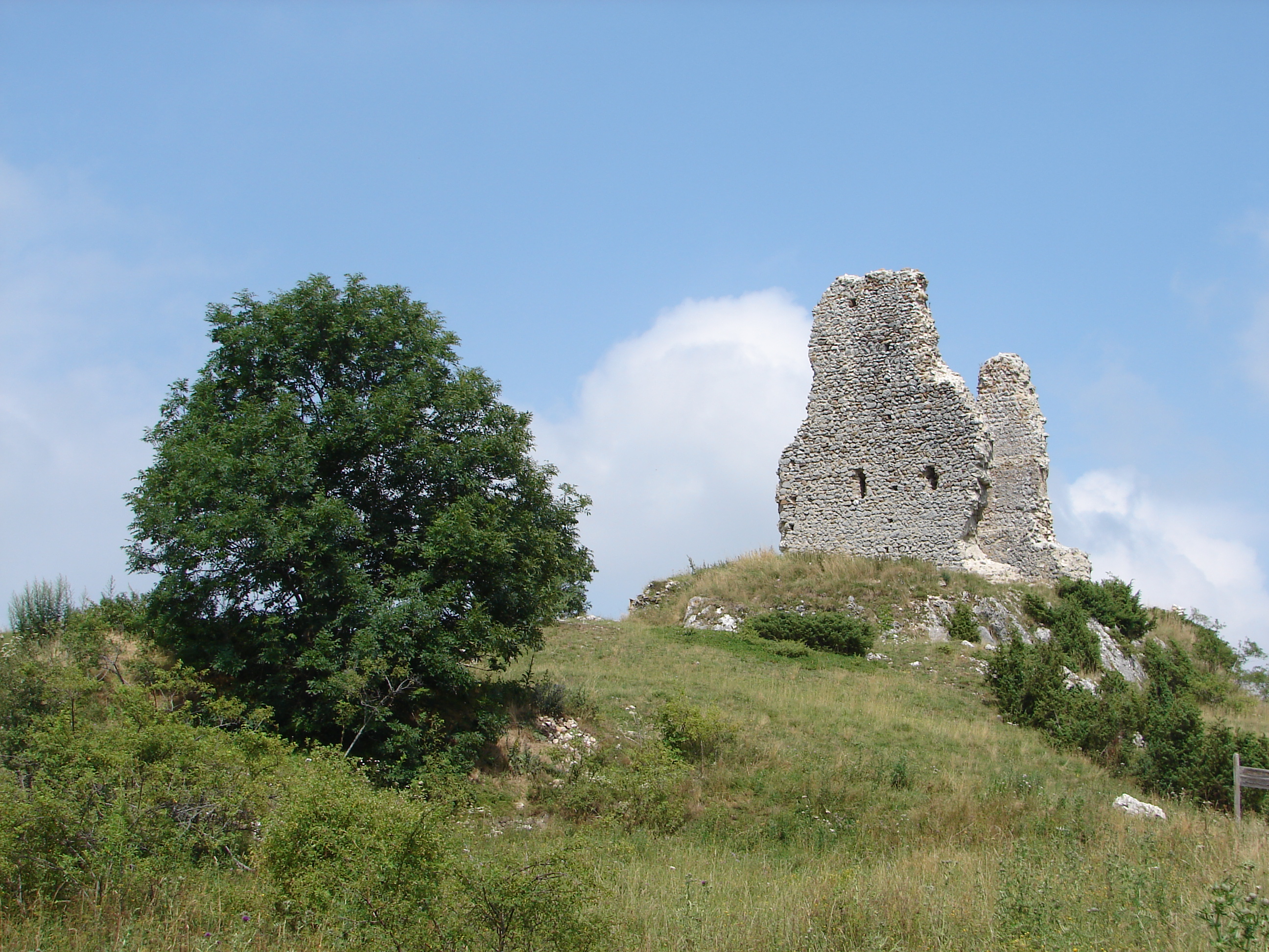 The castle of Montaillou (XIIe-XVI century), Ariège, France.